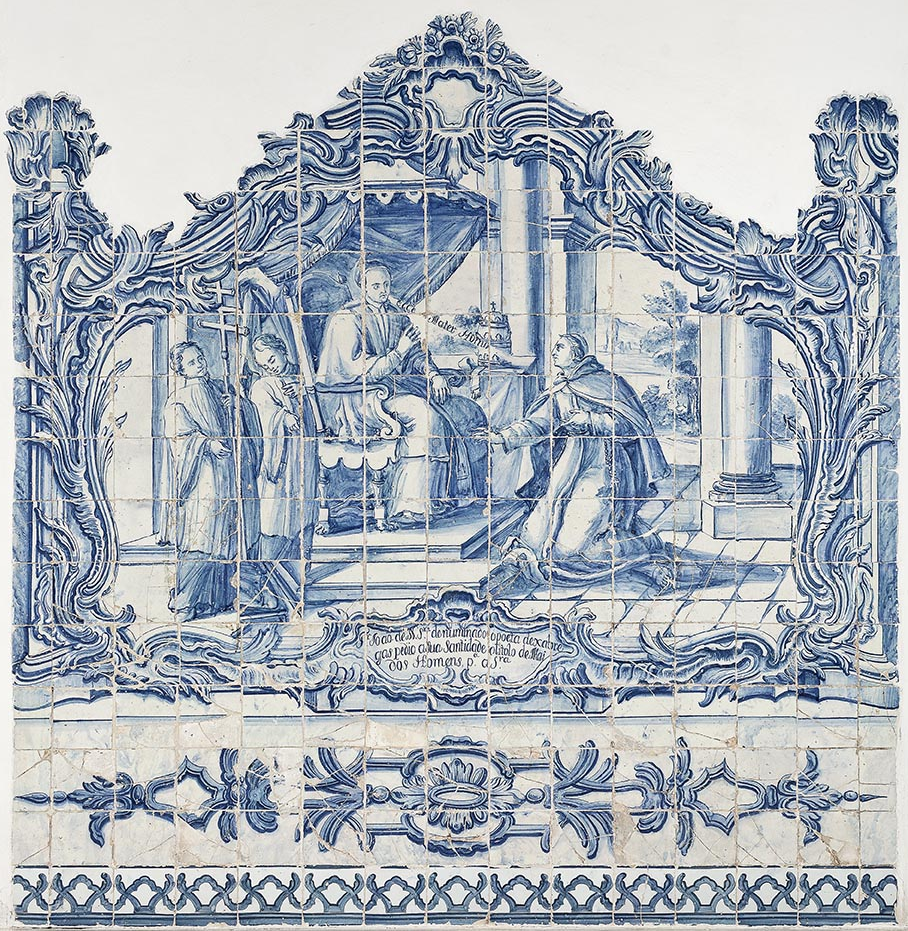 18th-century tile panel depicting Friar John of Our Lady, also called "the Poet of Xabregas" asking the Pope to give Our Lady the title of "Mother of Men", Açude Museum, Rio de Janeiro, Brazil.